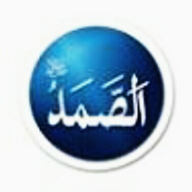 As-Samad / The Eternal / The Absolute / The Self-Sufficient is a name of God in Islam, is a name of Allah.